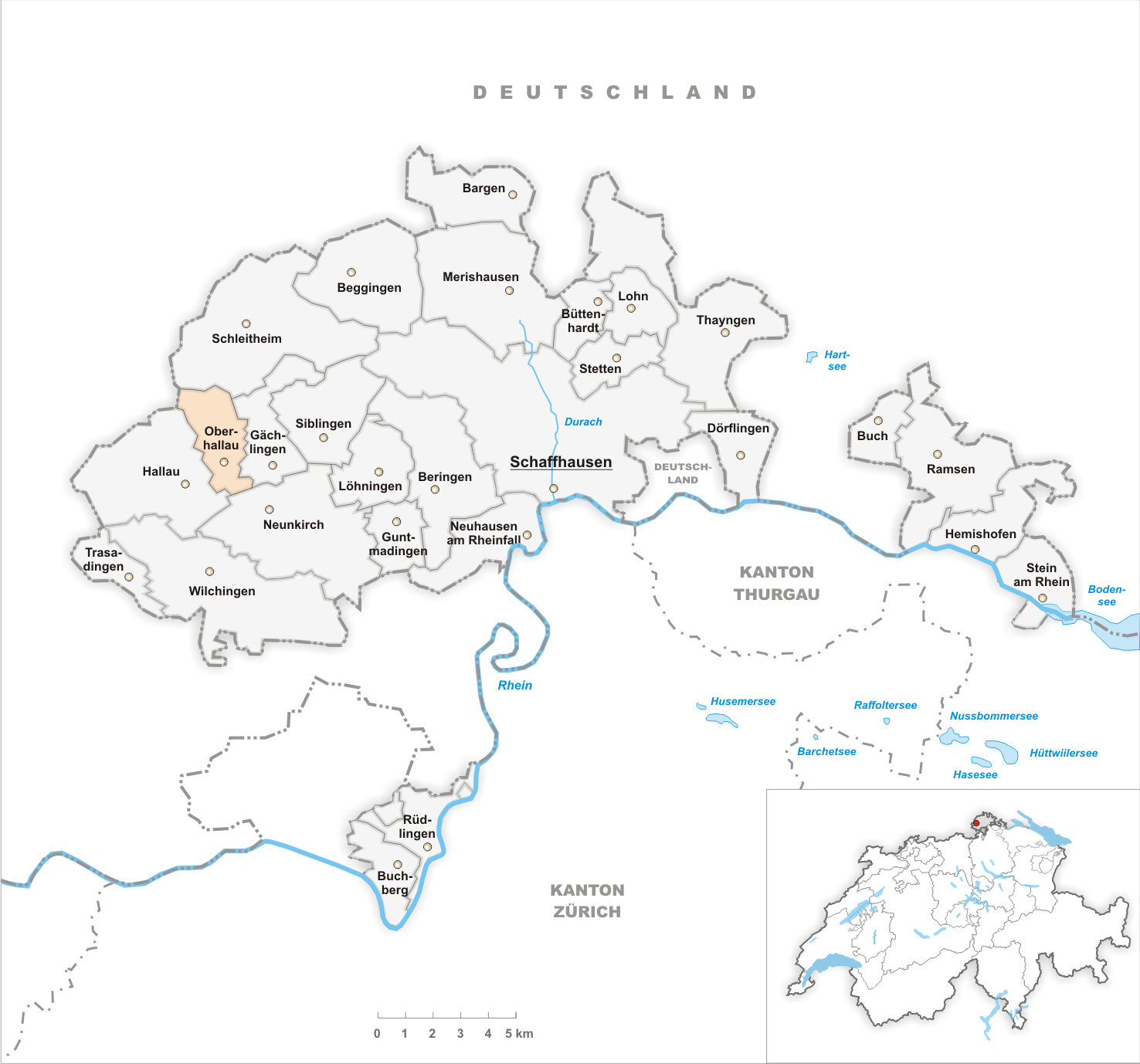 Municipality Oberhallau